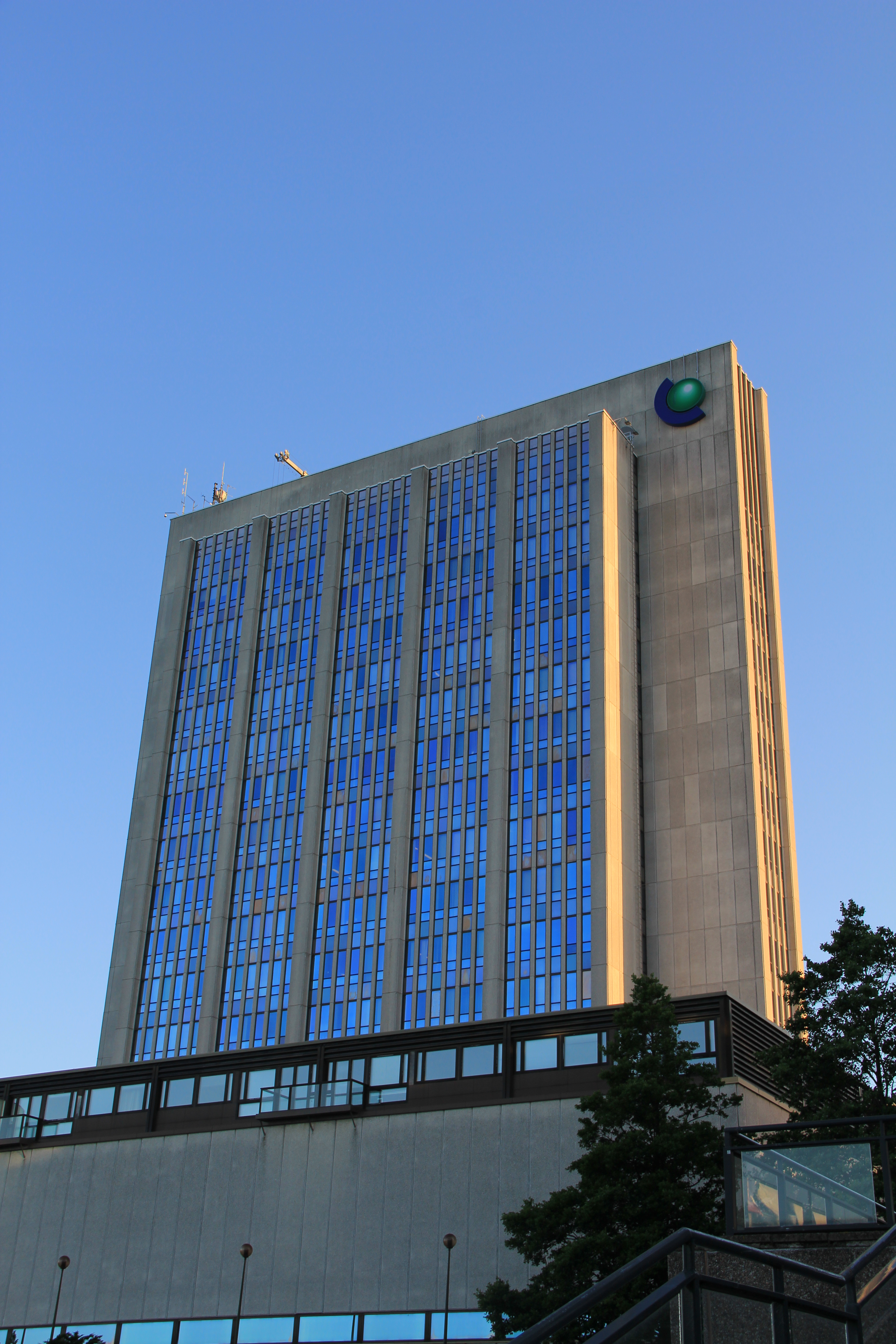 Fortum headquarters in Keilaniemi, Espoo, Finland. Designed by Castrén-Jauhiainen-Nuuttila Architects, completed in 1976.